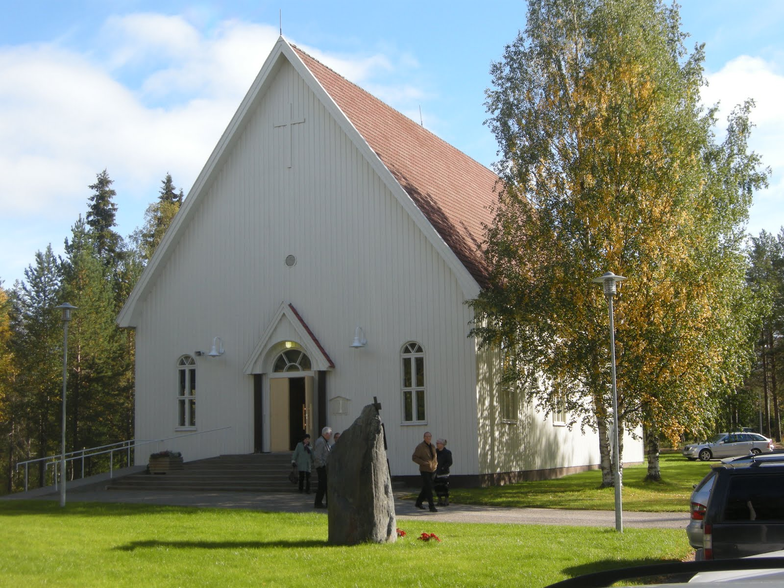 Posio Church in Finland